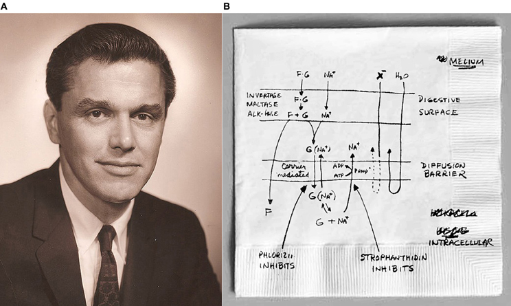 This picture is of Dr Robert K. Crane and his sketch on a piece of napkin for coupled cotransport that he proposed at the international meetings in Prague in 1960. The sketch shows brush-border membrane supposedly of the intestinal epithelium showing the digestive surface and the diffusion barrier. During digestion the dietary glucose liberated from sucrose at the digestive surface is transported across the plasma membrane by a sodium-glucose carrier complex. Glucose transport is driven by the inward Na+ gradient maintained by the Na+ pump. Strophanthidin inhibits the Na+ pump causing the Na+ gradient to dissipate and remove the driving force for uphill glucose transport. Phlorizin inhibits cotransport. The model remains valid to this day, apart from some minor details such as the site of phlorizin inhibition (extracellular) and the location of the Na+/K+ pump.